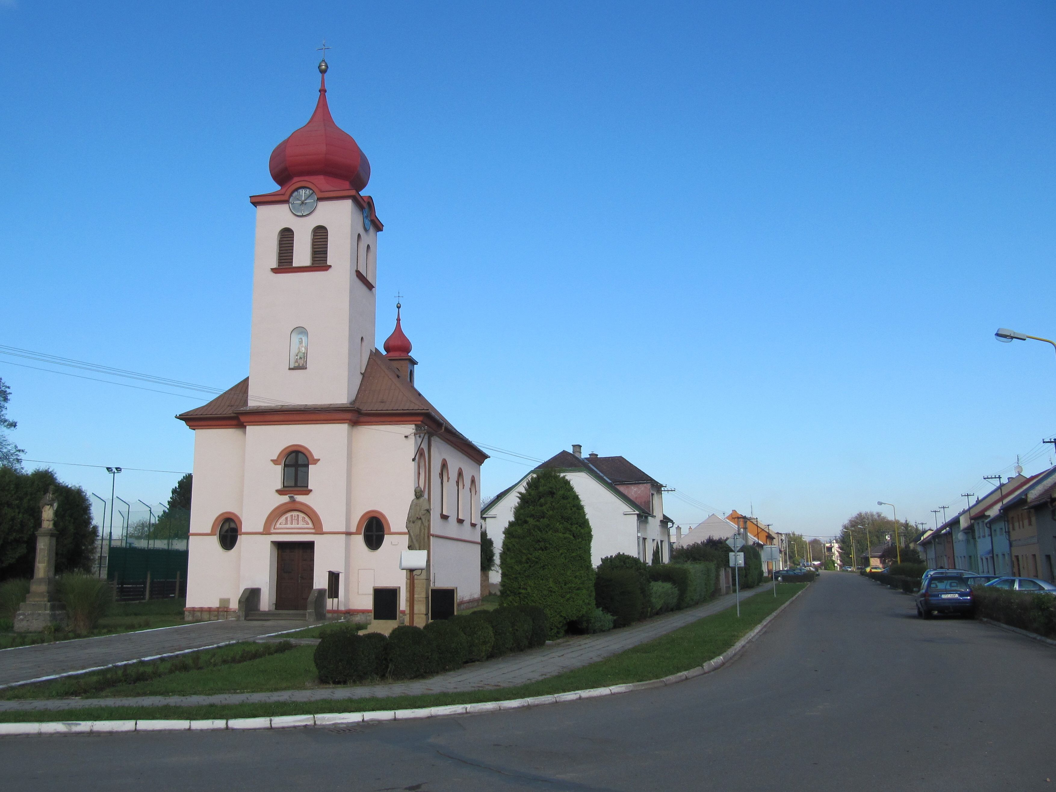 Pravčice in Kroměříž District, Czech Republic. Church of St. Florian from the years 1924-1925.